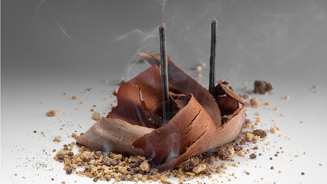 Mugaritz